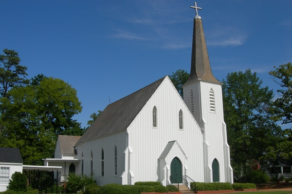 Saint Paul's Episcopal Church in Lowndesboro, Alabama. Erected 1856.